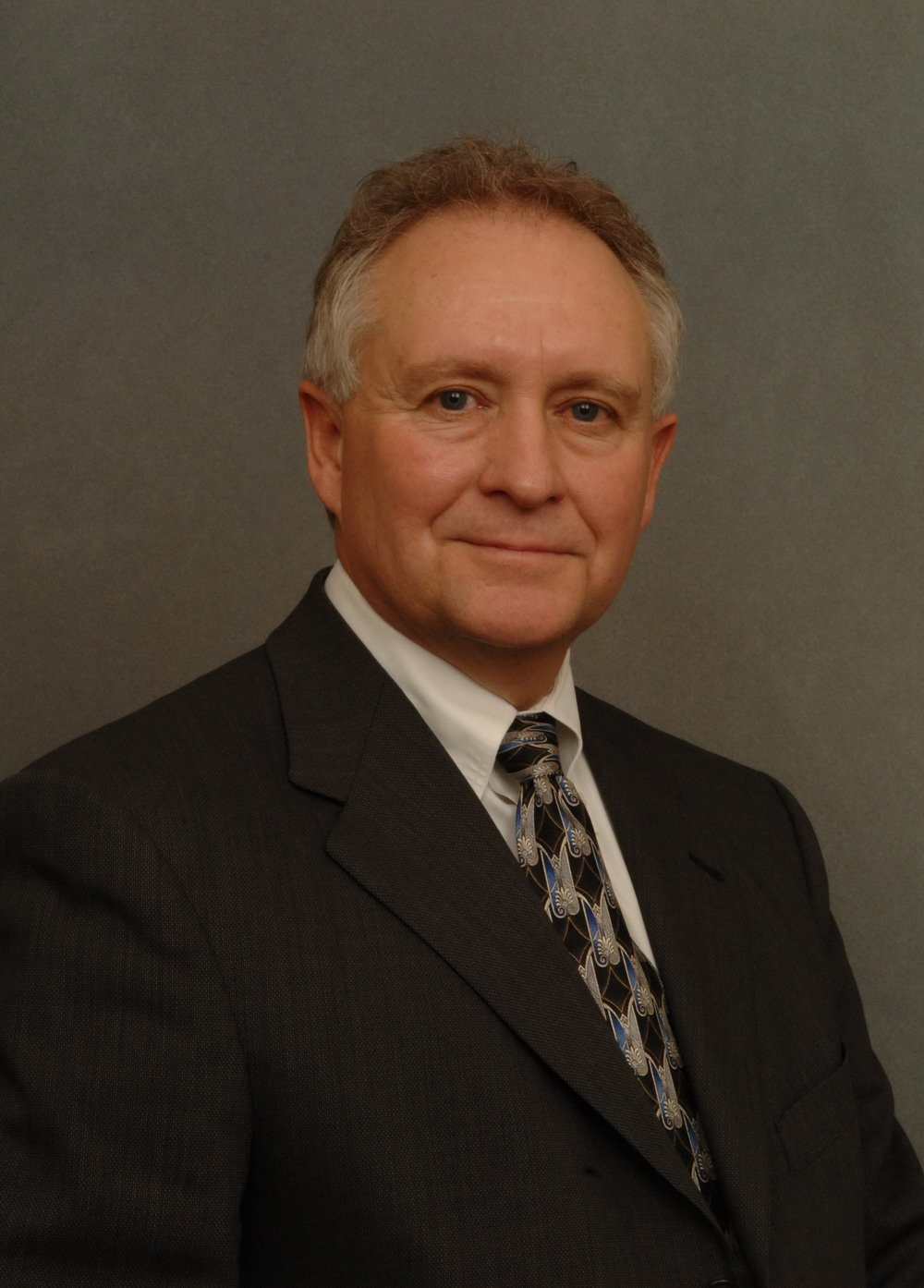 A portrait of Randall Luthi, former director of the Minerals Management Service, now president of the National Oceans Industries Association, whose mission is to secure a “favorable regulatory and economic environment for the companies that develop the nation’s valuable offshore energy resources.”